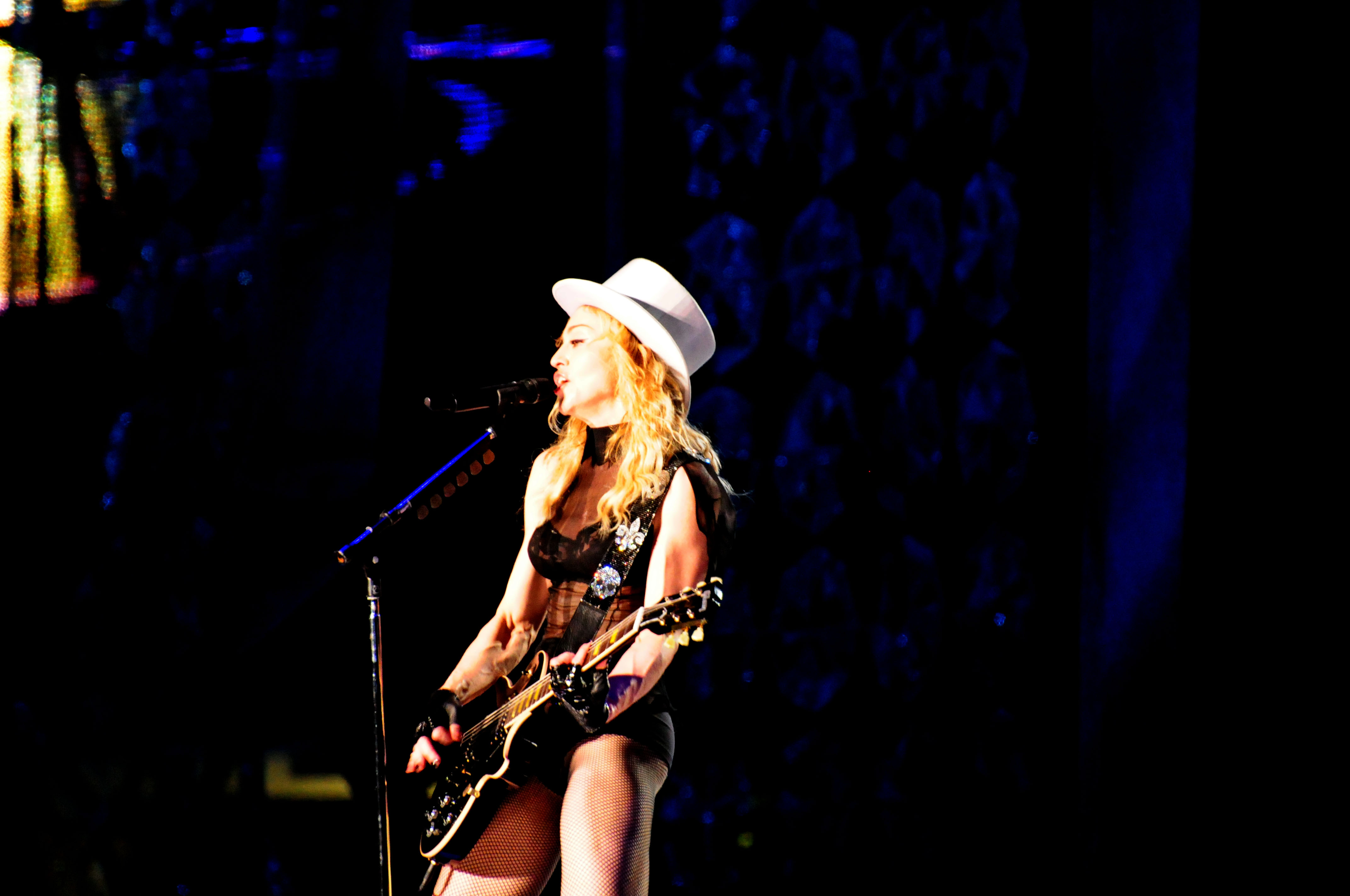 Madonna in Sweden, Gothenburg 2009 at Ullevi